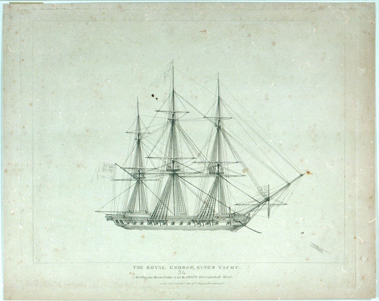 The Royal George King's Yacht 34 Print